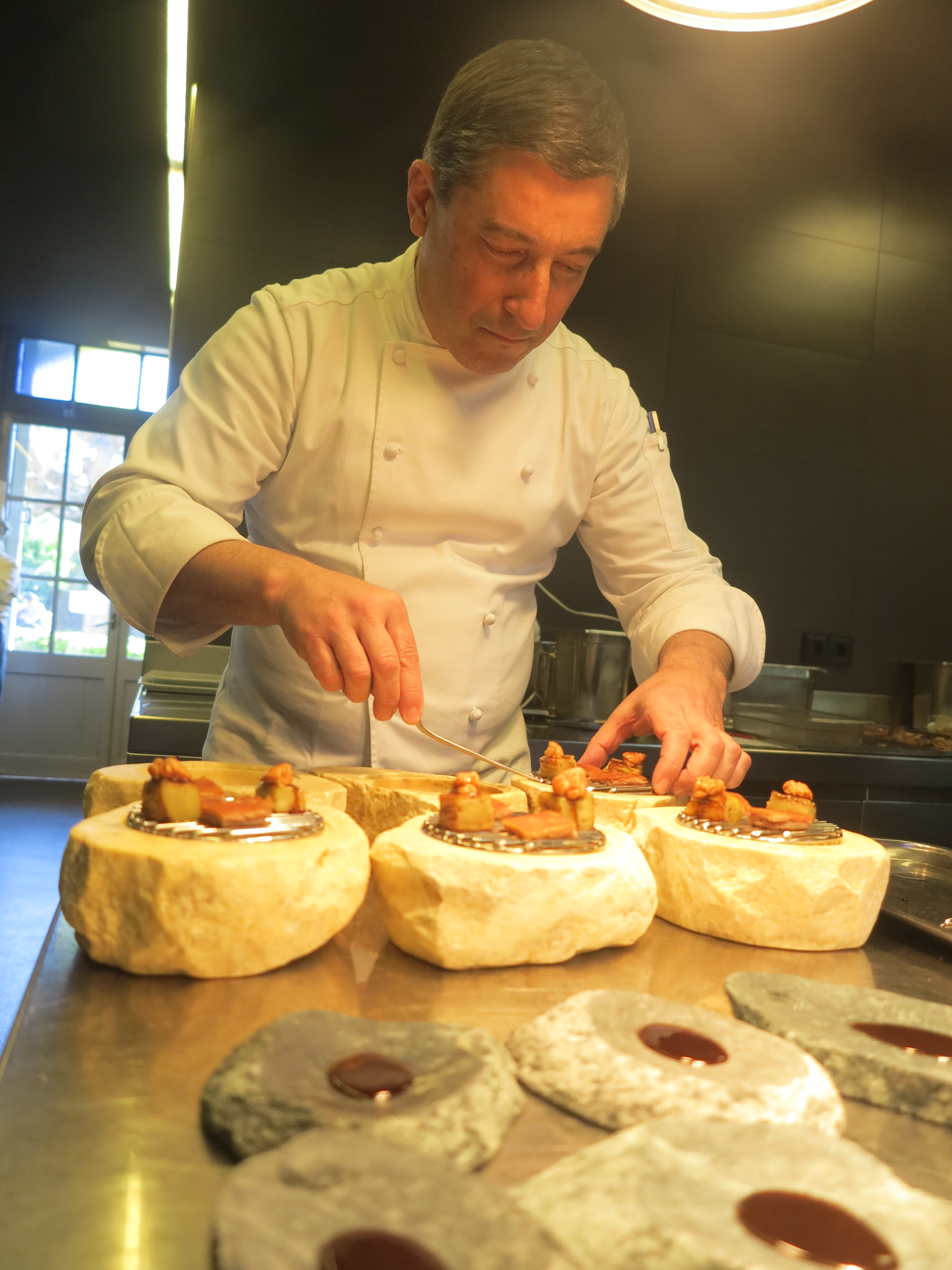 Joan Roca working in the kitchen of the El Celler de Can Roca.